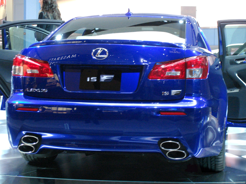 Lexus IS-F at NAIAS